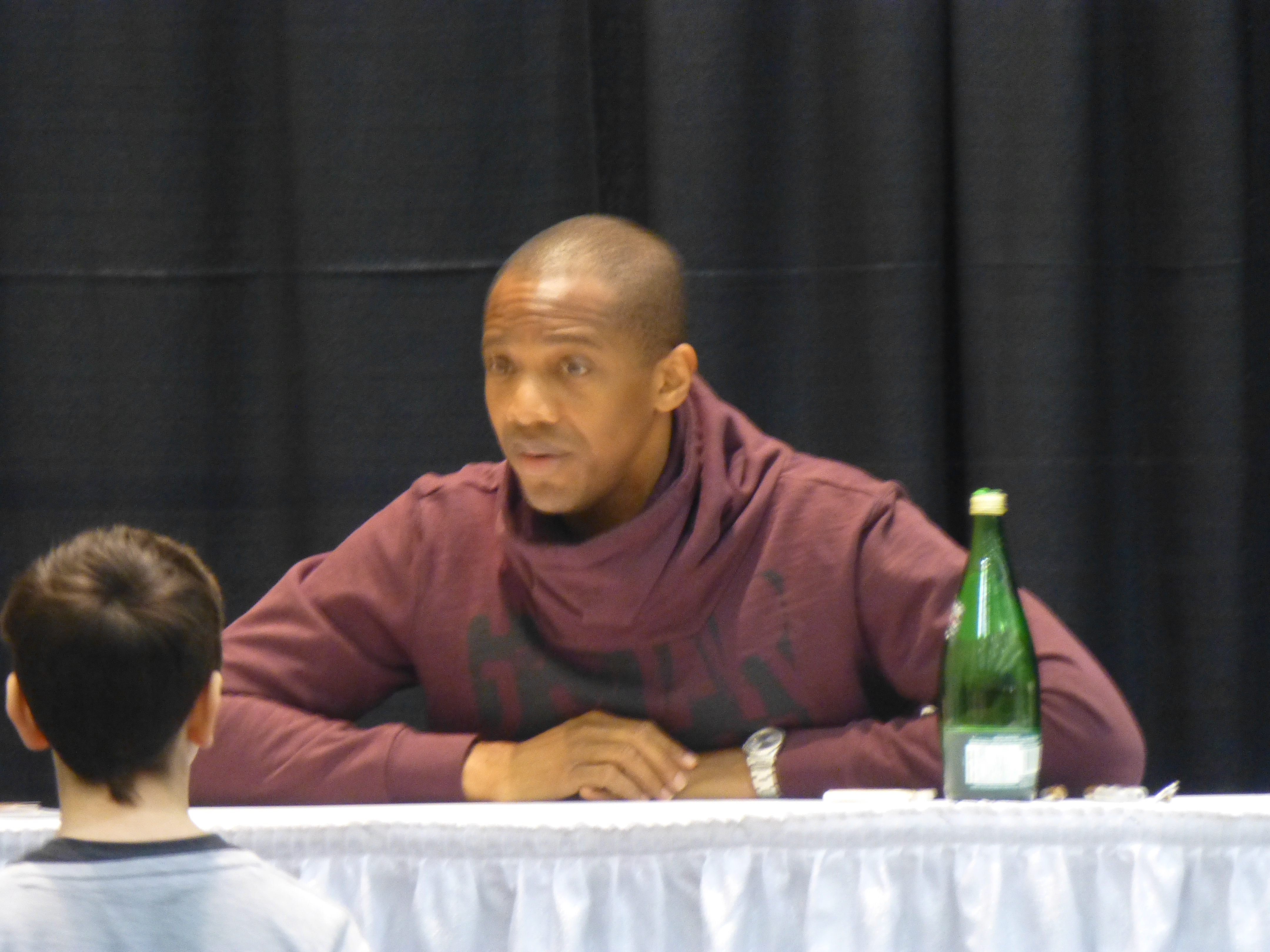 J August Richards Toronto Comicon 2015